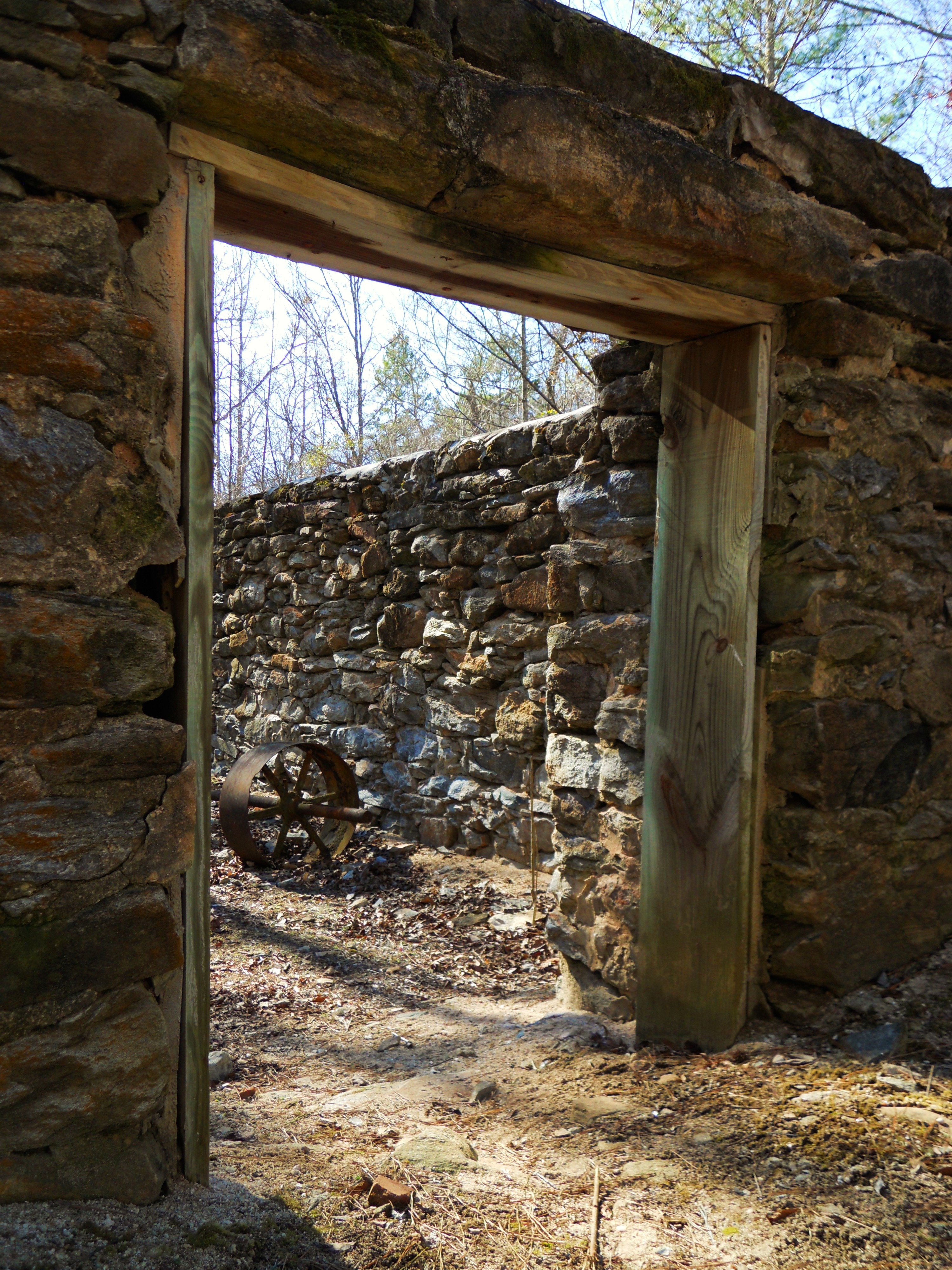 This is a photograph of the remains of The McCosh Grist Mill located near Rock Mills in Randolph County, Alabama. It was added to the National Register of Historic Places on November 21, 1976.